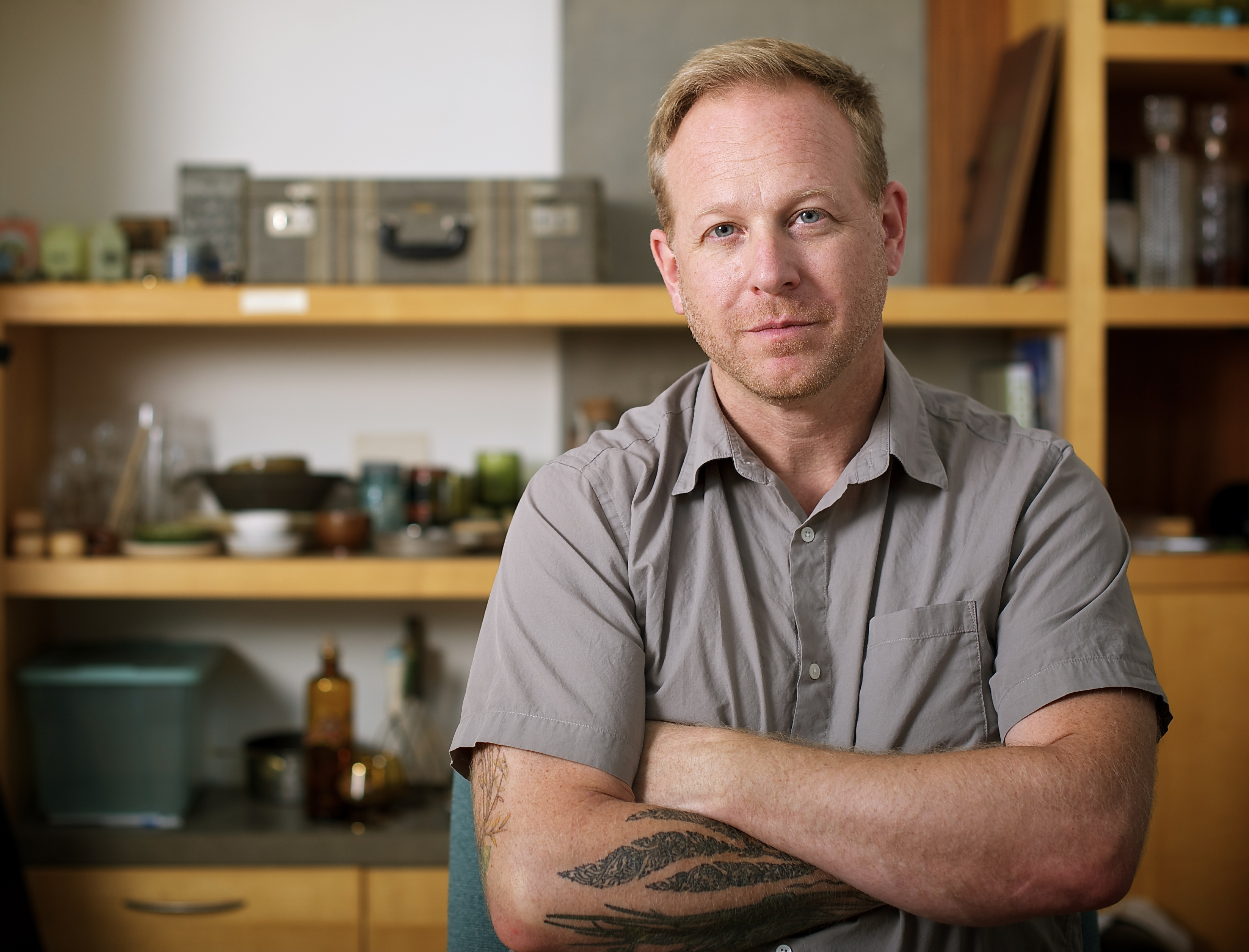 Andy Ricker (press photo)